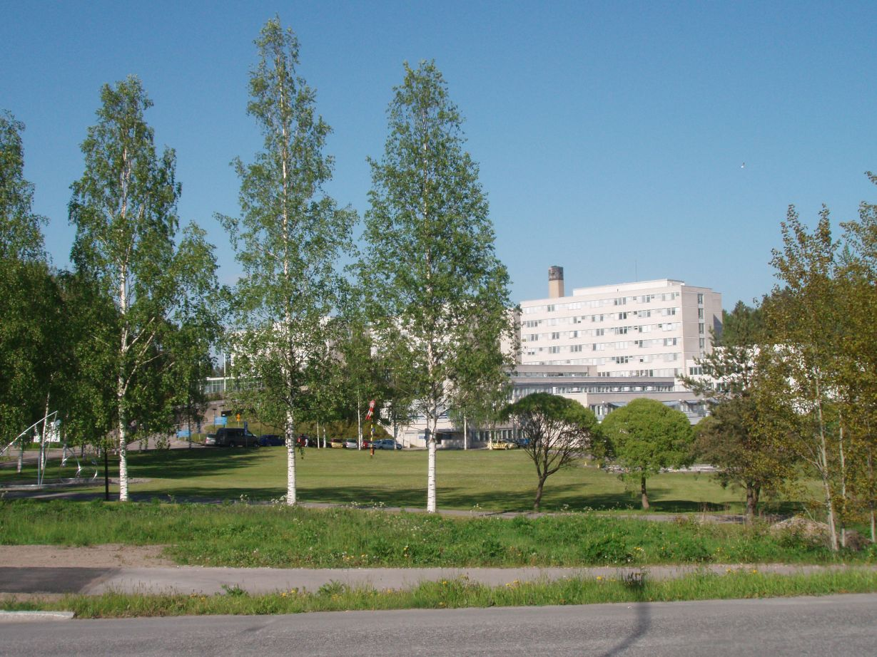 Jorvi Hospital in Espoo, Finland